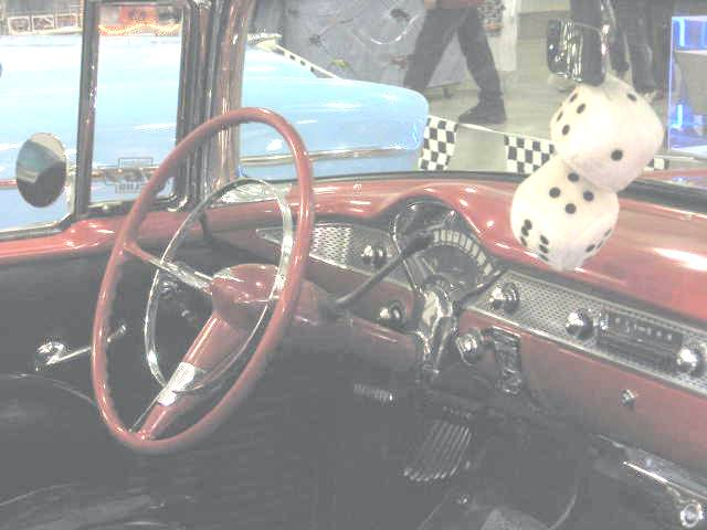 '50s Chevy interior with fuzzy dice on mirror, from local car show